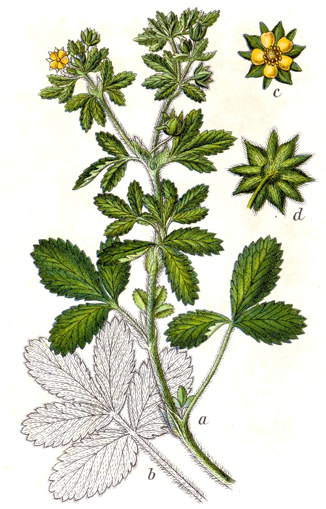 Norwegian cinquefoil